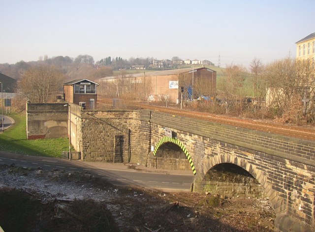 Signal box and bridge, seen from Calderdale Way (A629), Elland